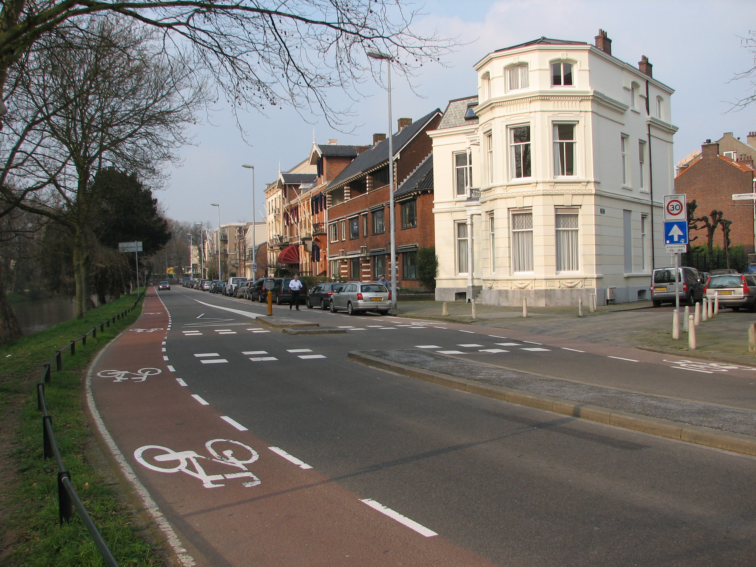 Cycle lanes on Maliesingel in Utrecht (2007). Note the cars parked in the bike lane on the far side of the street. In 2018 the road was redeveloped to emphasize bicycle and pedestrian transport by creating a central two-way travel lane for cars and advisory bike lanes on either side, plus a designated parking lane. This change was possible because of improvements to car-oriented streets elsewhere in the city. See more here